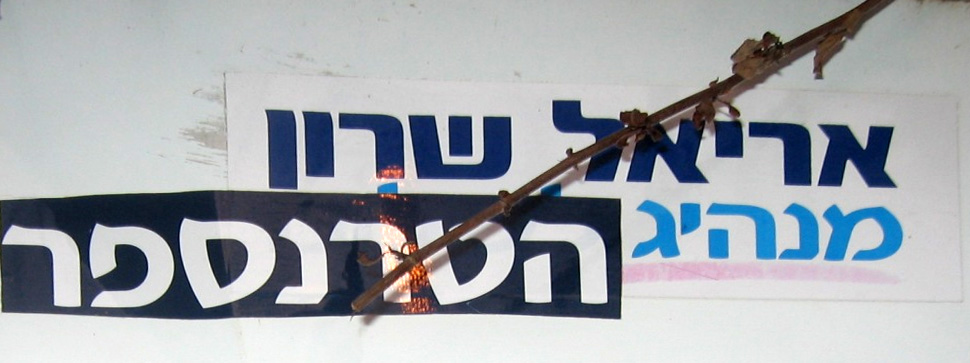 One sticker reading "Ariel Sharon leader for peace" (Ariel Sharon Manhig LaShalom in Hebrew) with another sticker with the word "The transfer" placed over the word for "peace" on the first sticker, so that the whole now reads "Ariel Sharon, leader of the transfer".